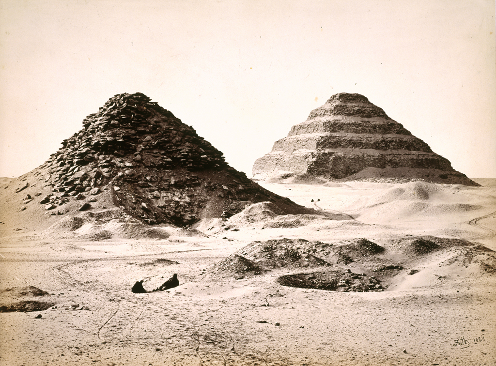 Francis Frith 1858 Francis Frith (1822-1898) - The Pyramids of Sakkarah from the North East. 1858. Accession no. PGP R 175.7 Medium Albumen print Size 36.50 x 49.30 cm Credit Gift of Mrs. Riddell in memory of Peter Fletcher Riddell, 1985 For more information please select Frith&submit=1 here.